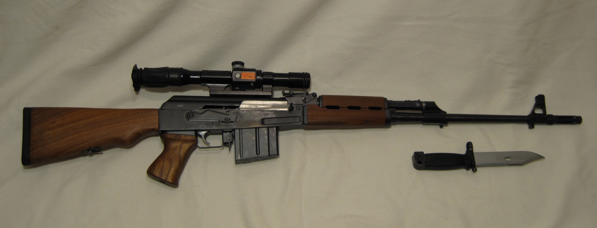 Zastava M-76 rifle with ZRAK M-76 4x 5°10’ telescopic sight and bayonet.